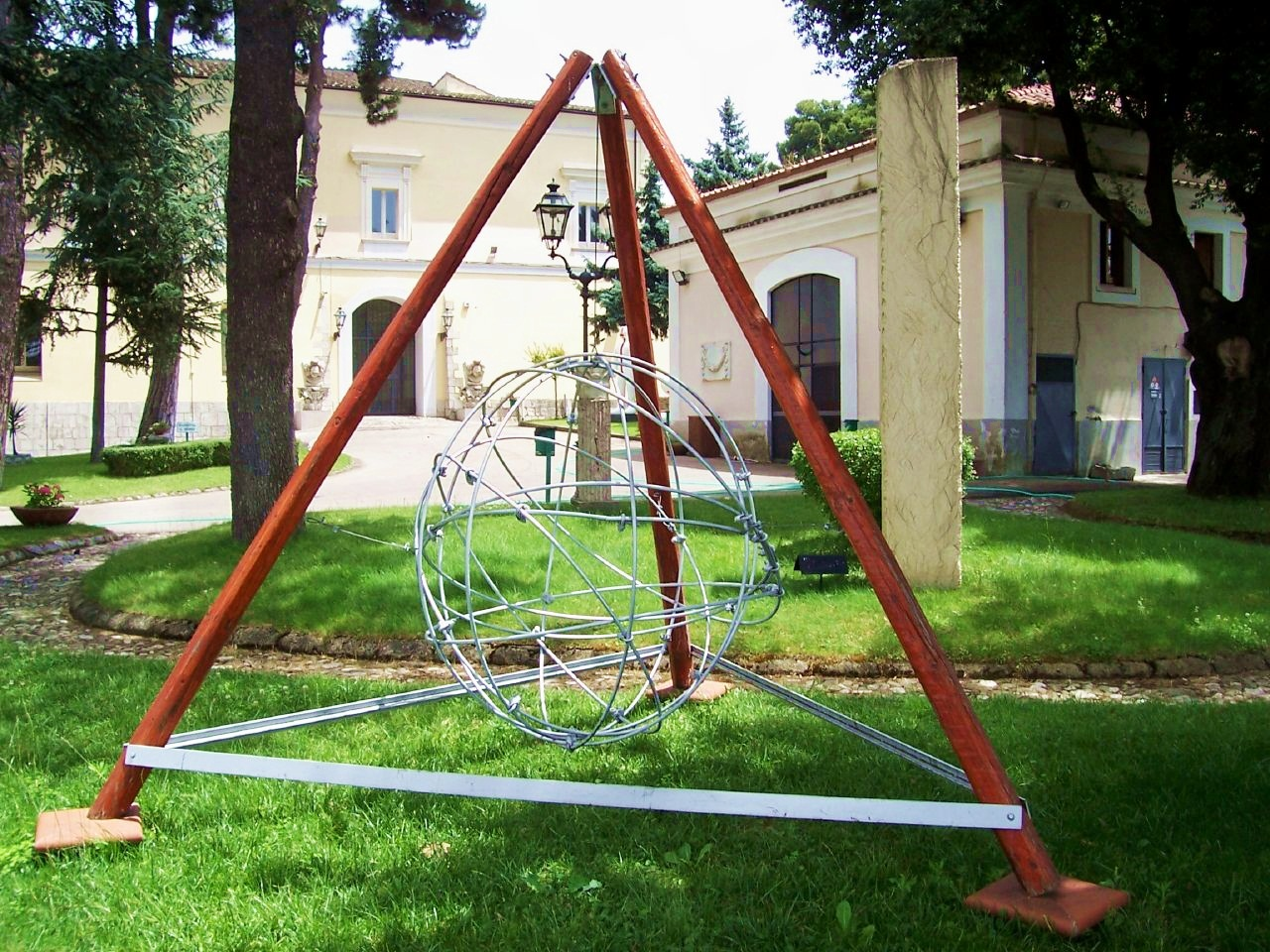 An artwork in the garden of Rocca dei Rettori, Benevento